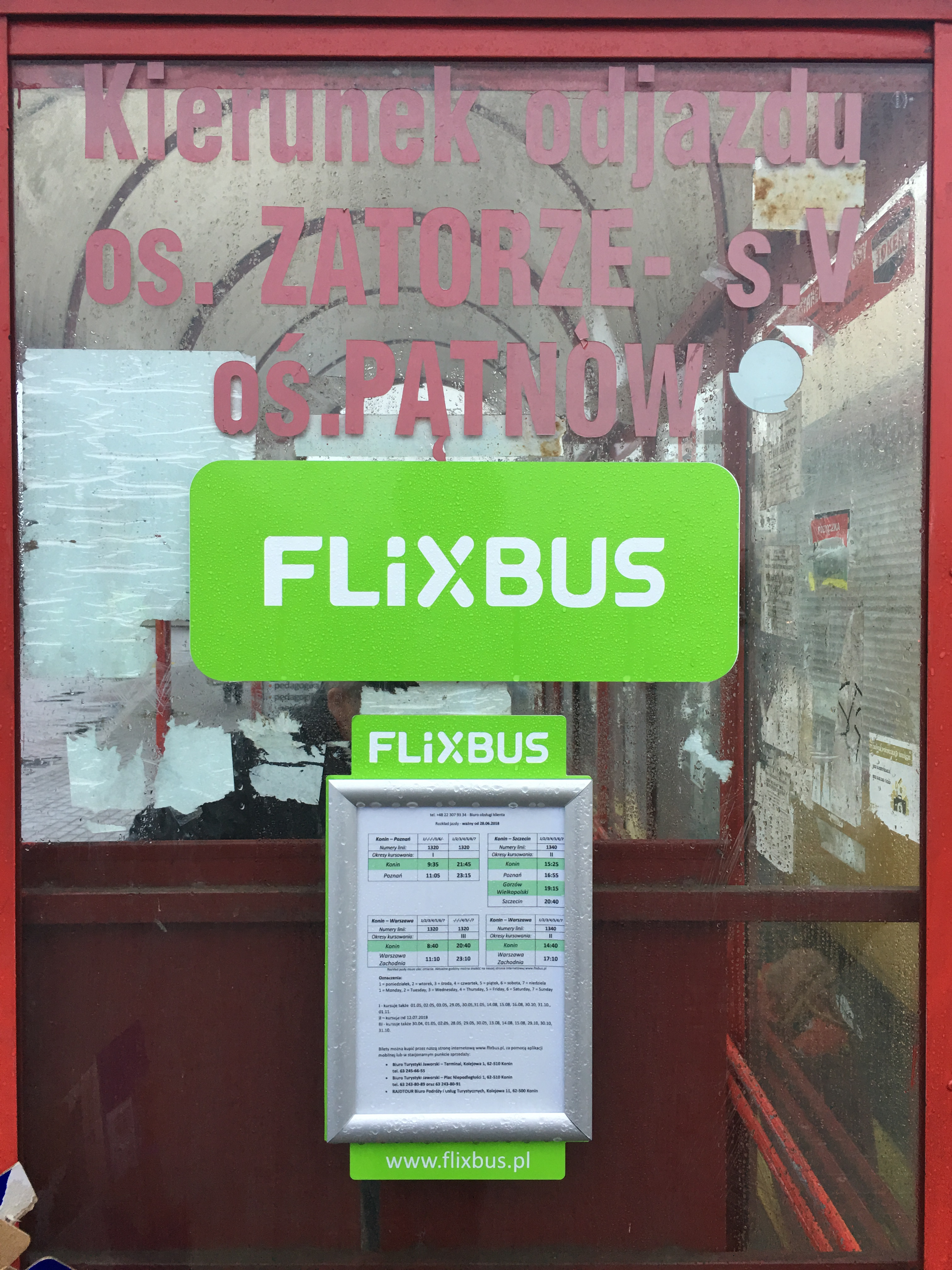 The FlixBus timetable on the bus stop in Konin (2018)